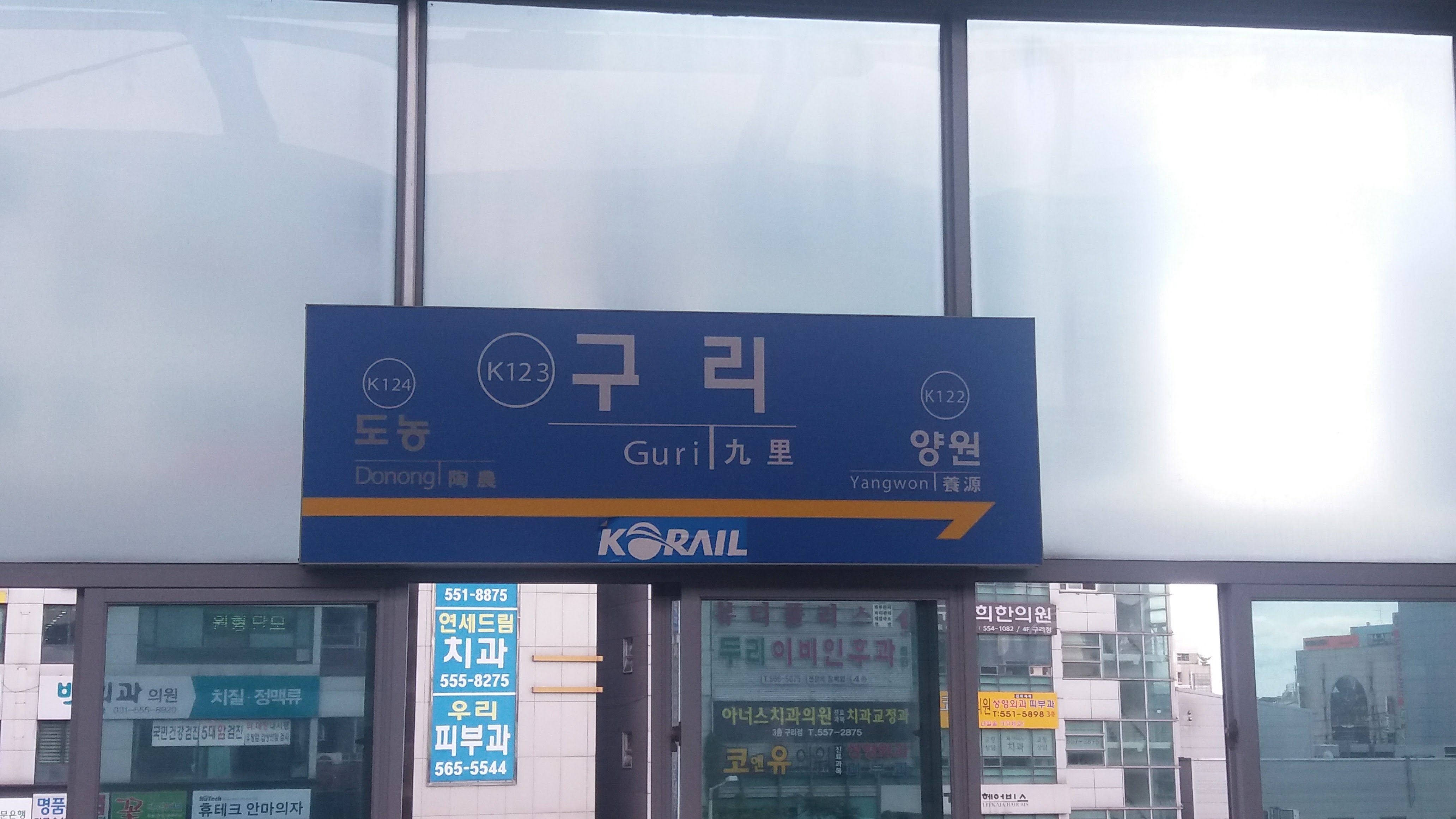 Station name sign of Guri Station